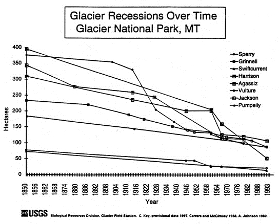 Trends in glacial extent since 1850 at a site for which there is particularly much data: Glacier Park, Montana. USGS info.